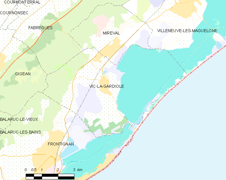 Map commune FR insee code 34333.png - Vic-la-Gardiole